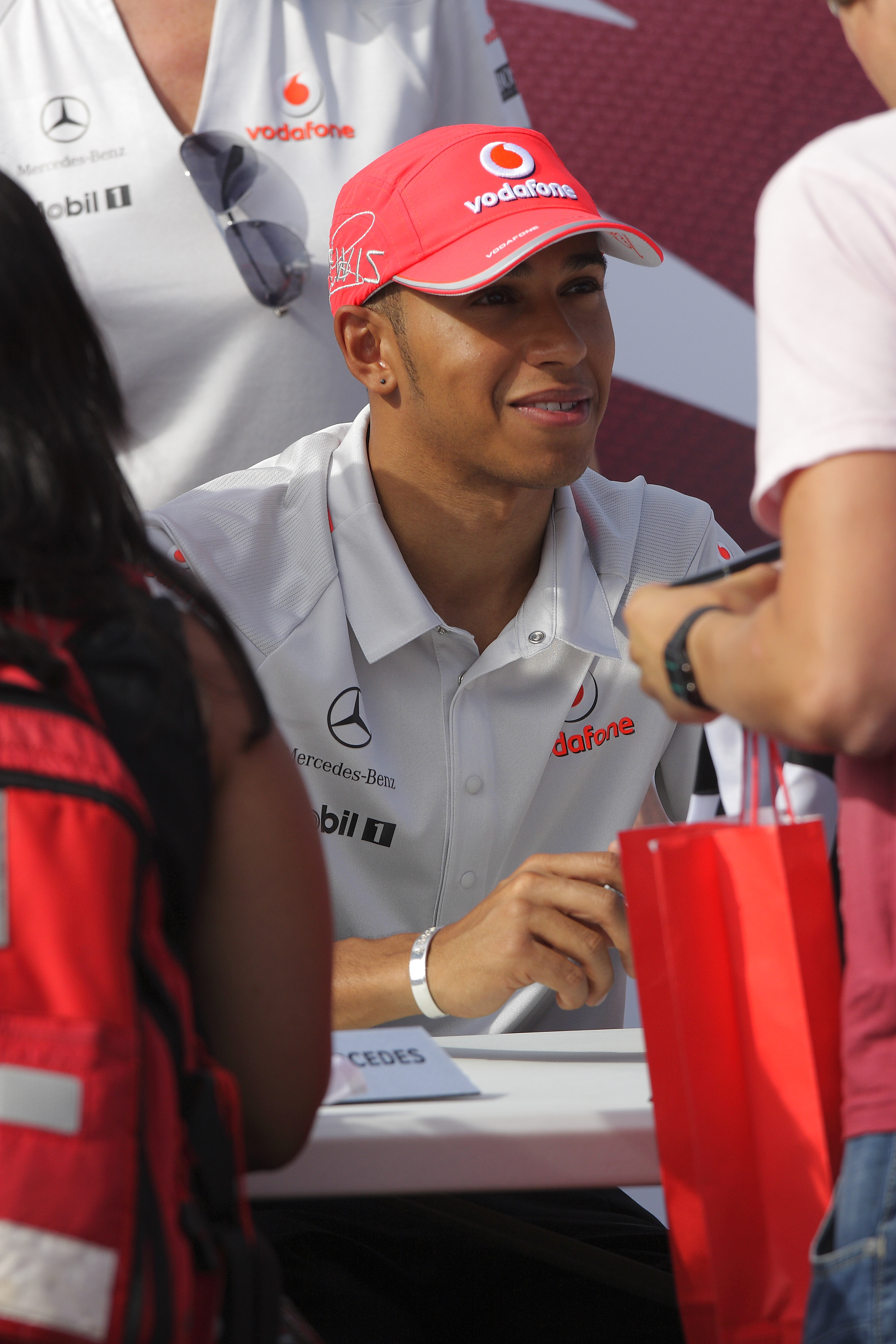 Lewis Hamilton signing memorabilia for fans at the 2010 British Grand Prix.